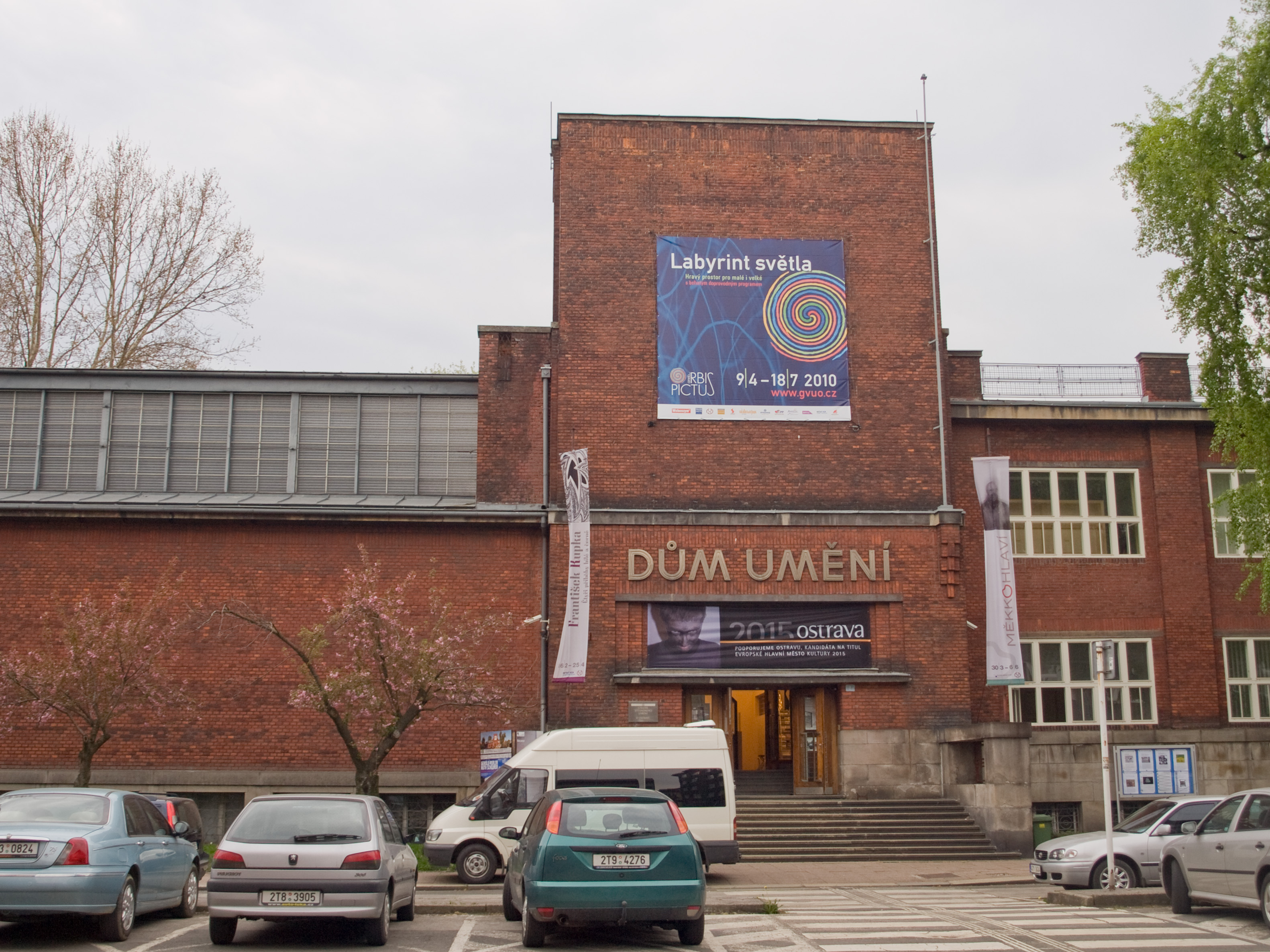 House of culture, Moravská Ostrava